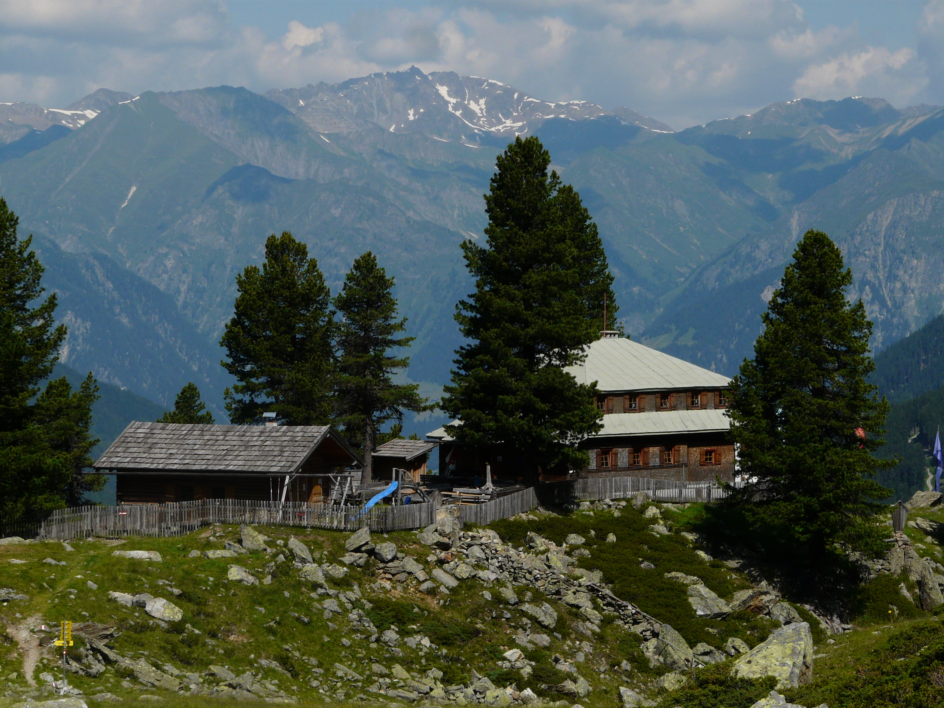 Hohenzollernhaus